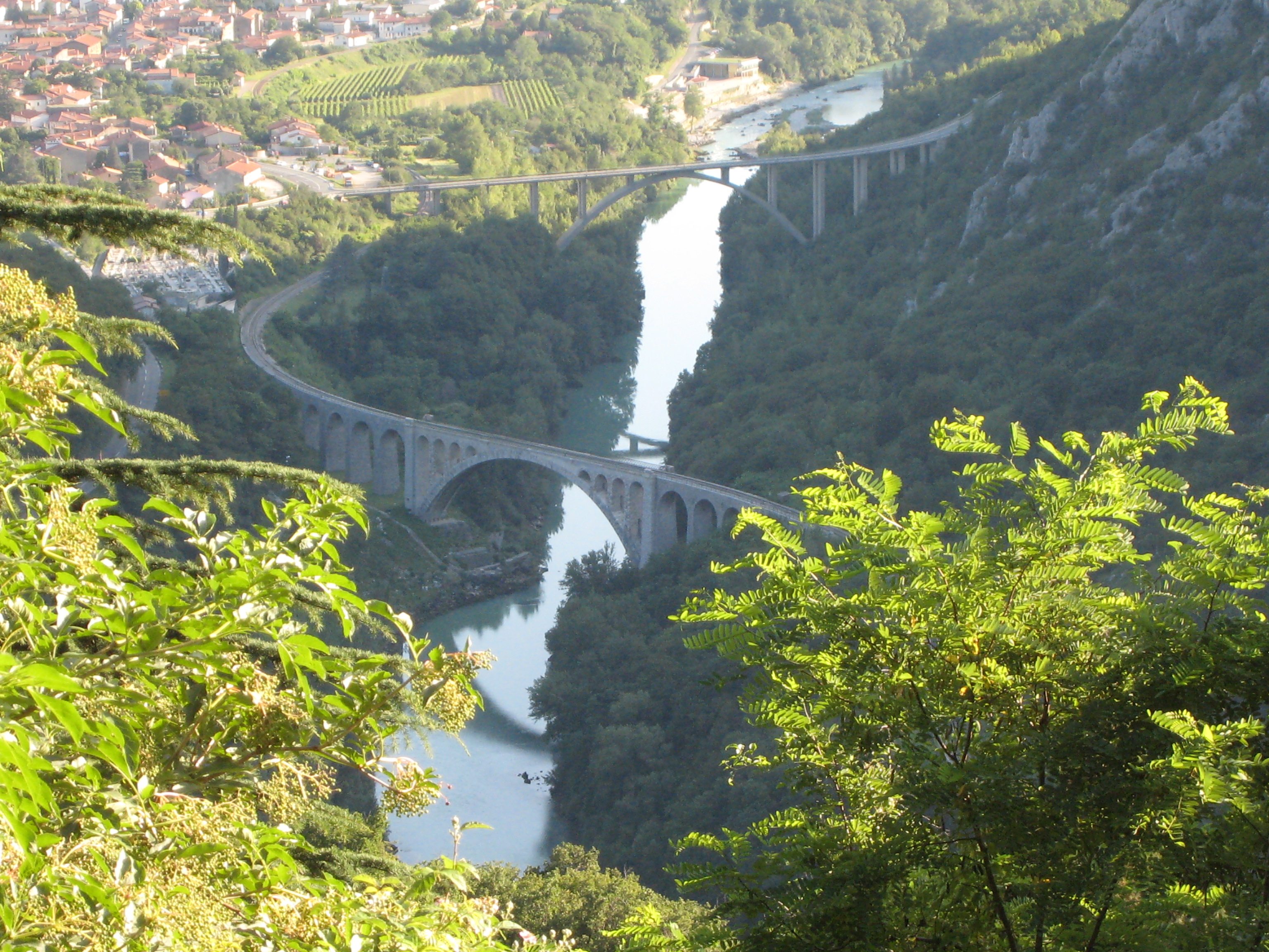 Solkan bridge near Nova Gorica, Slovenia